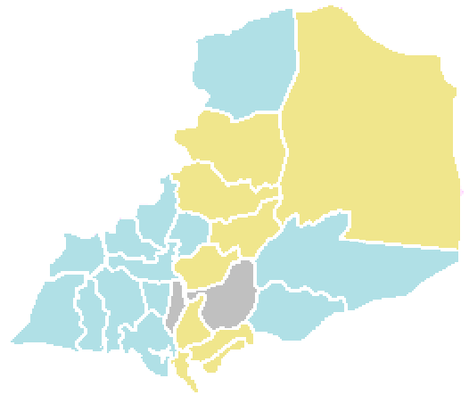 2010 Bulacan gubernational election result